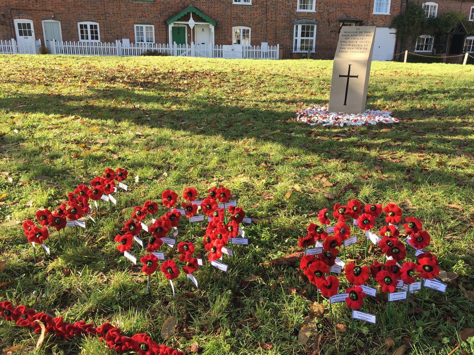 Poppies on the Forty. Poppies on the Forty The number 100 commemorating the centenary of the ending of World War One. The poppies are knitted by villagers in Cholsey and there are over 60, each one with a name of the person who died and lived in the village.